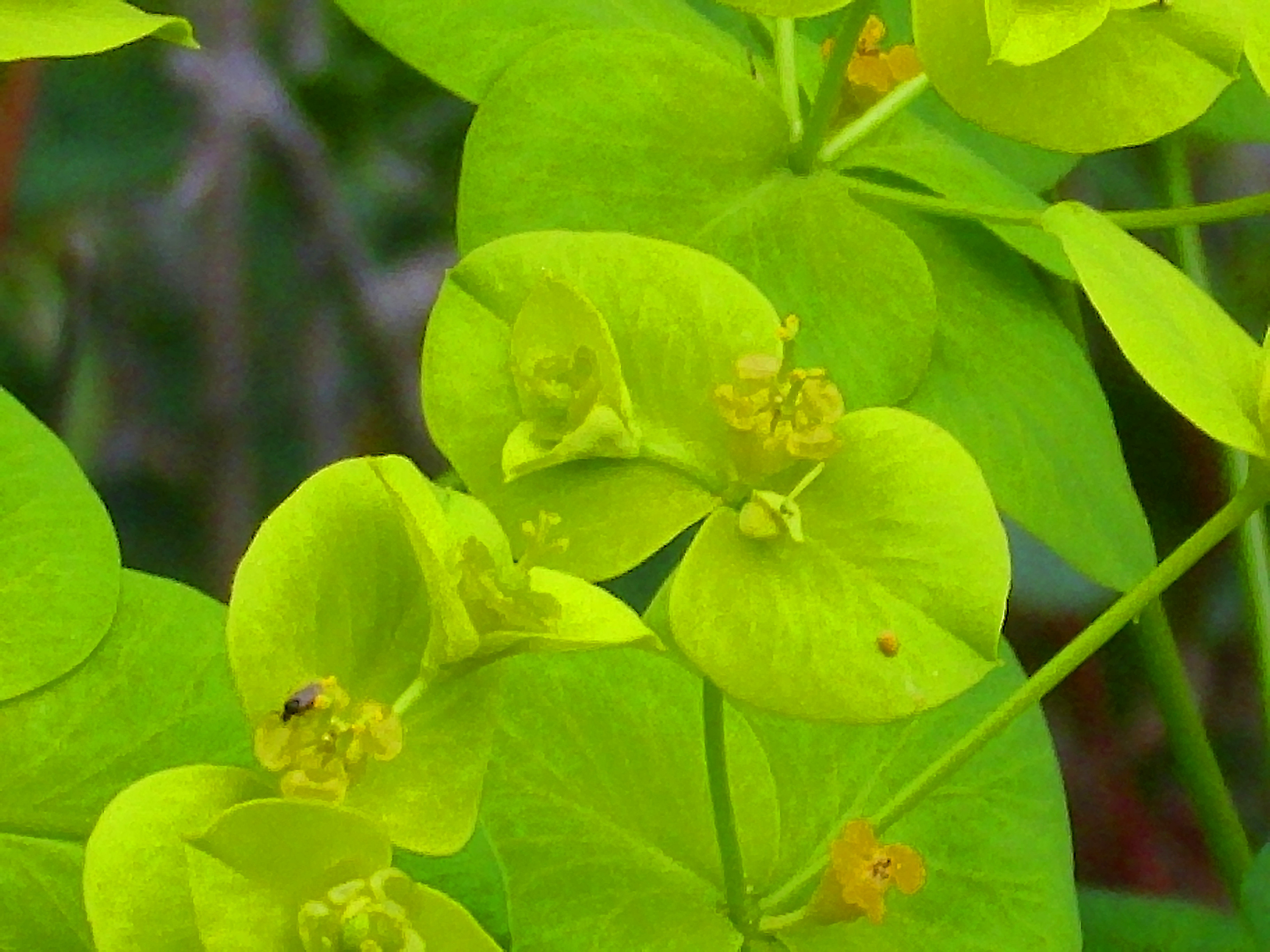 Euphorbia paniculata close up, Sierra Madrona, Spain